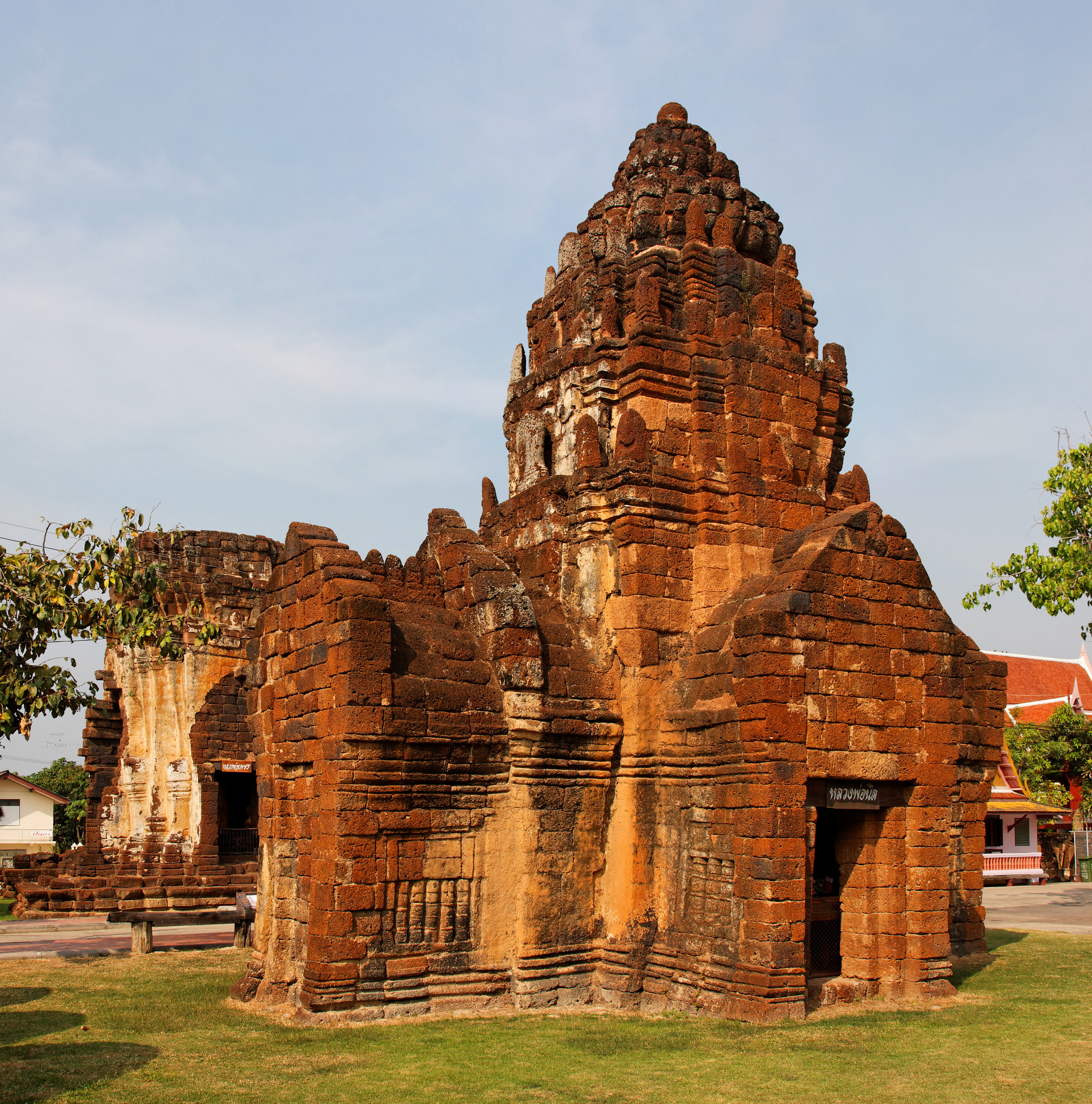 Wat Kampaeng Laeng, Petchaburi, Thailand